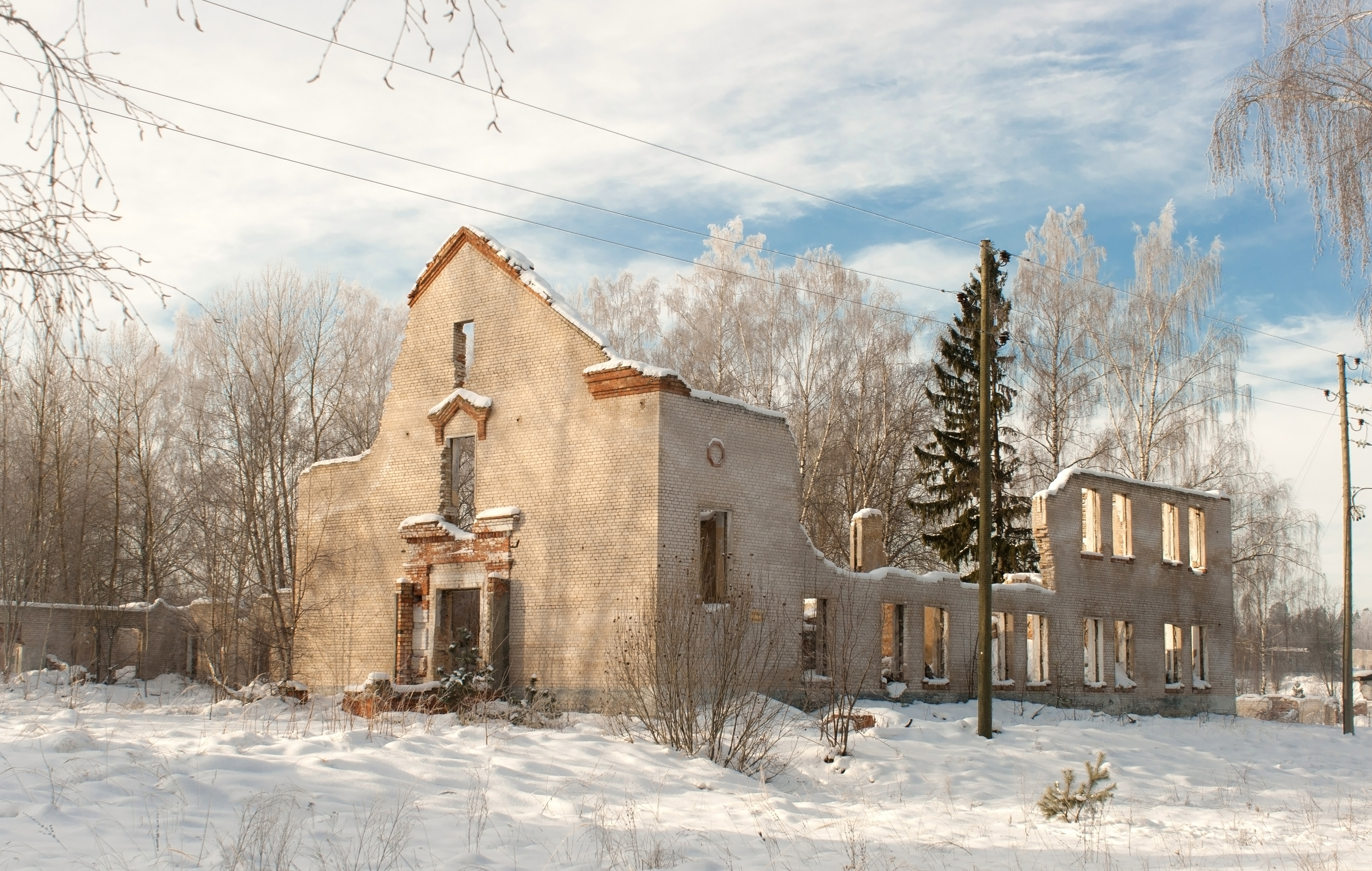 Ruins of former Soviet Army Officers House in now abandoned military settlement Dobele-2 (Gardene)